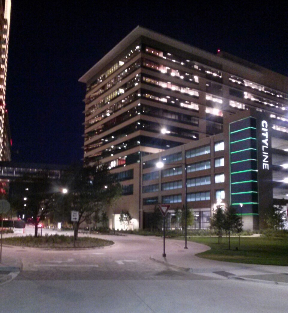 CityLine Richardson